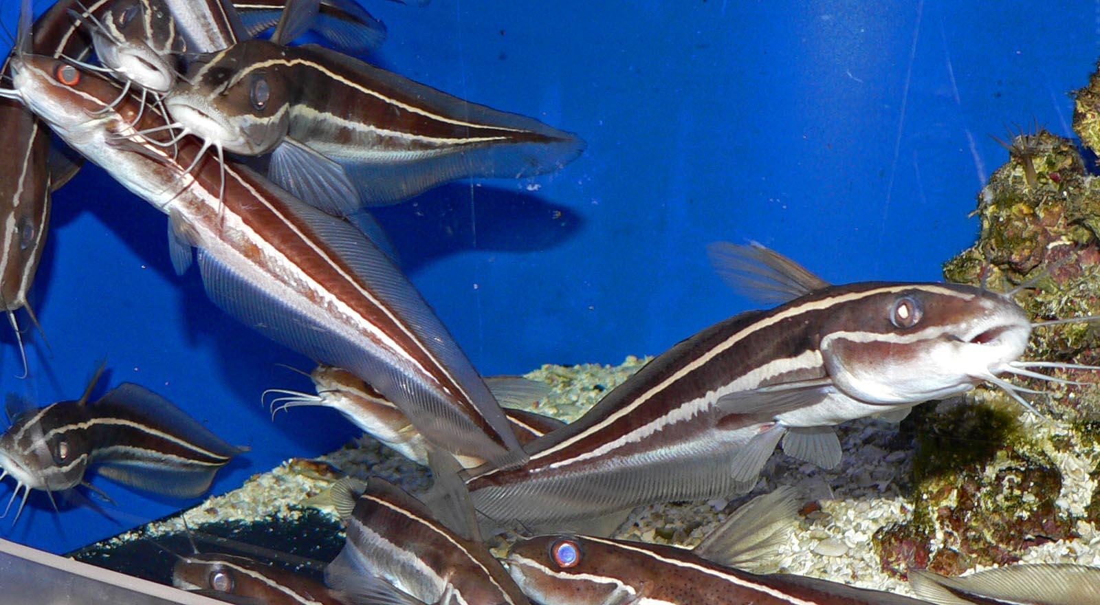 Photo of Plotosus lineatus (striped eel catfish) at the Steinhart Aquarium in San Francisco